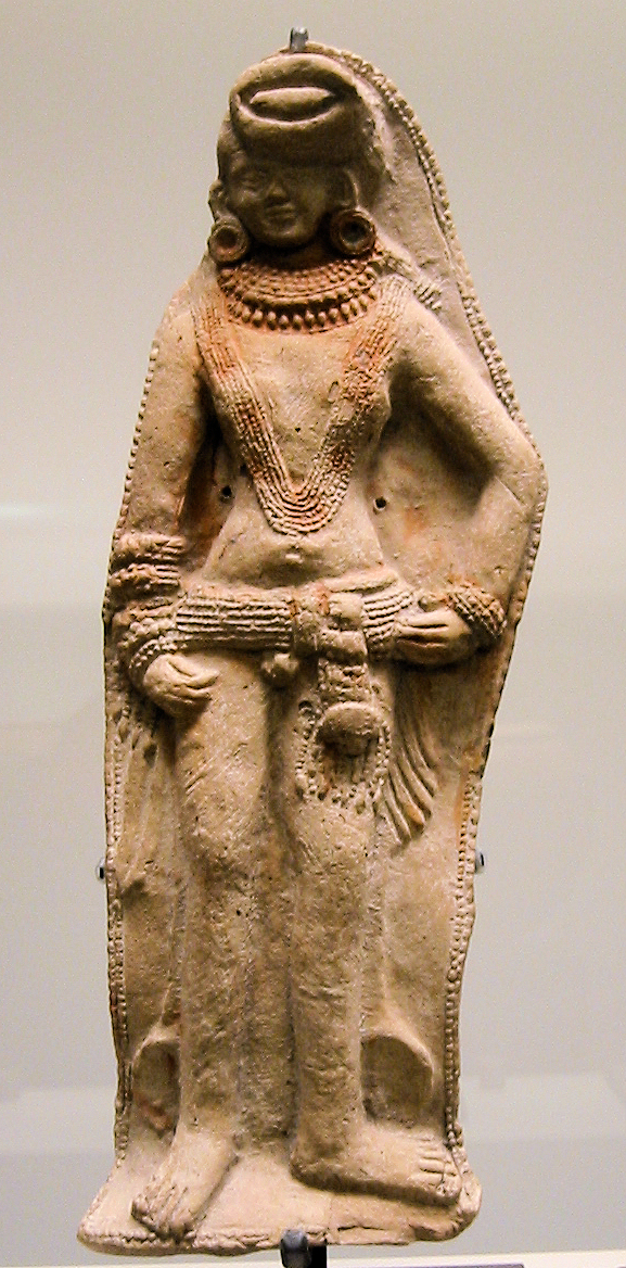 Sunga fecondity deity. Chandraketugarh. Sunga 2nd-1st century BCE. Musée Guimet. Personal photograph.